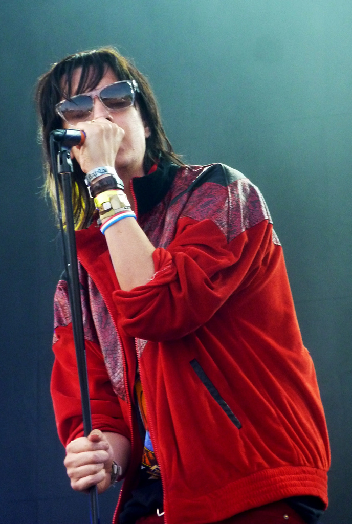 Julian Casablancas at Eurockéennes 2010 in Belfort, Territoire de Belfort, France.